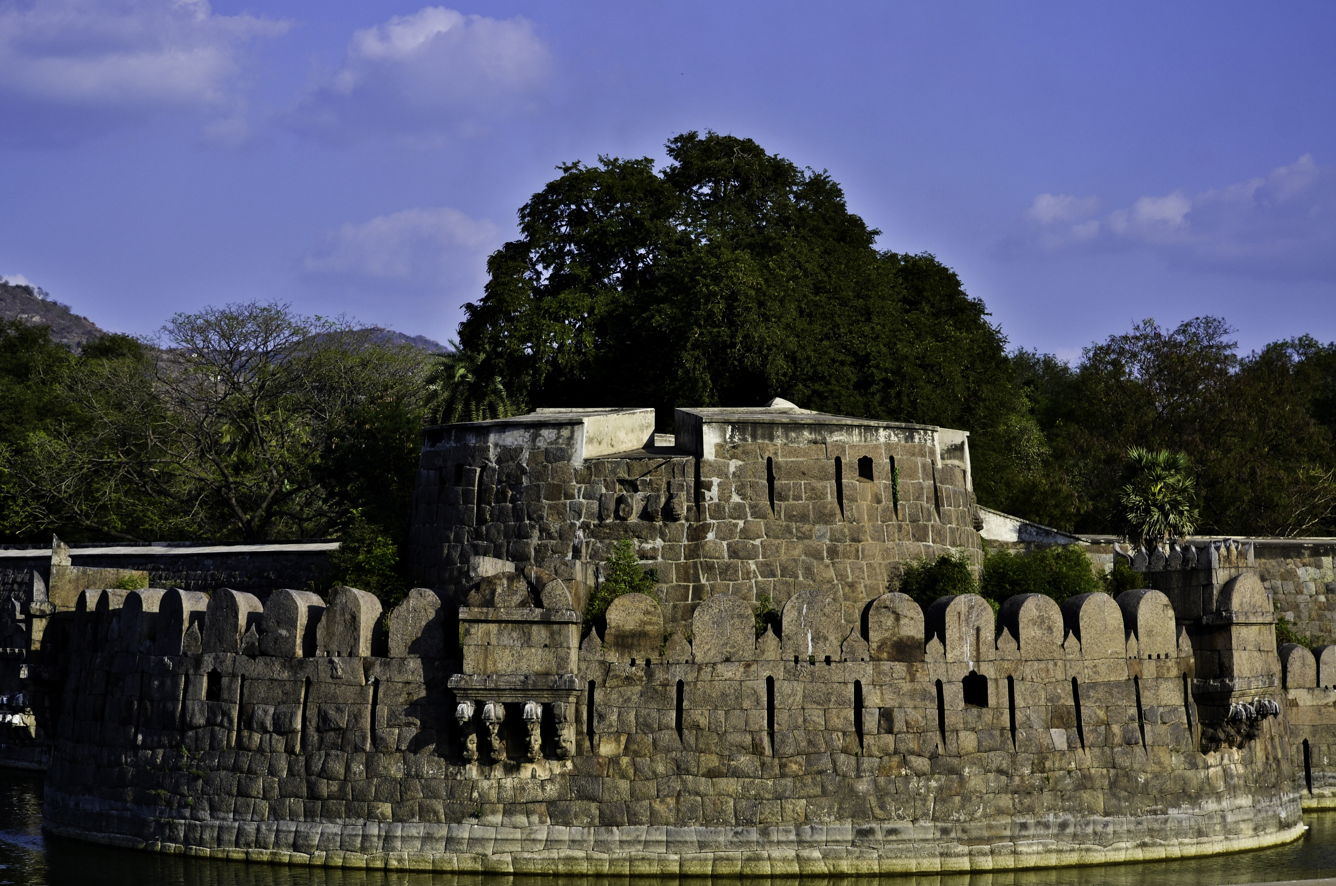 Vellore Fort